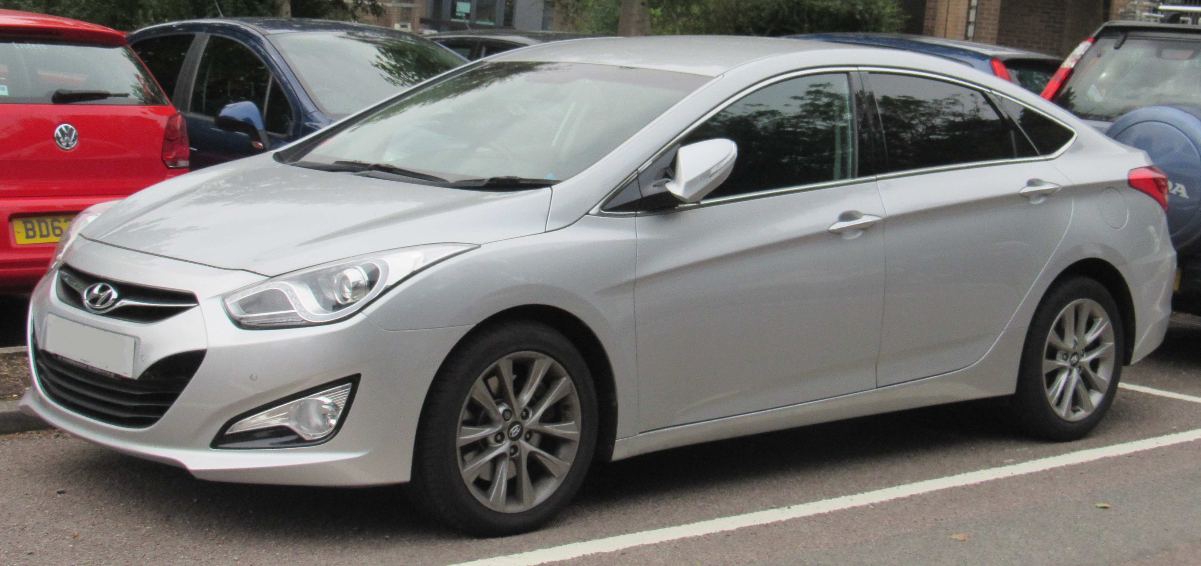 2014 Hyundai i40 Style CRDi Automatic 1.7 Taken in Leamington Spa